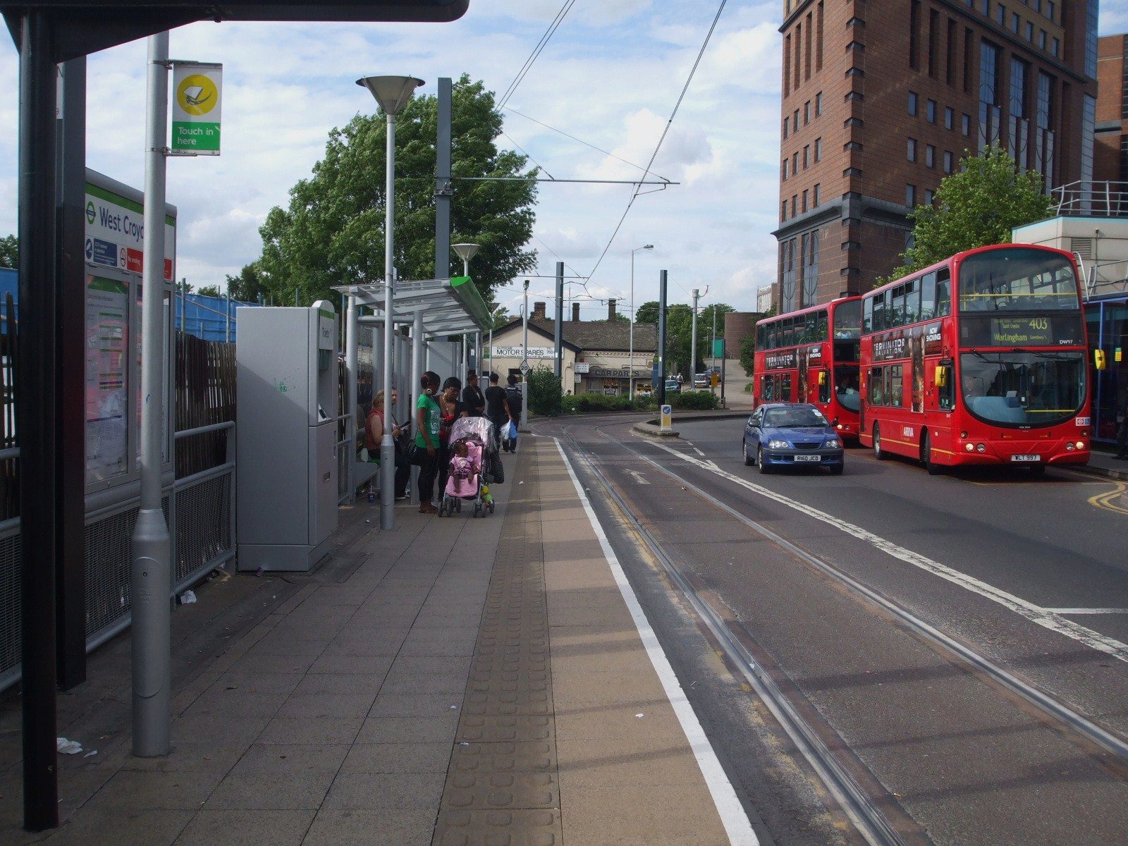 West Croydon tram stop uni-directional platform looking north. Served in the northbound direction only, this is round the corner from the entrance to the epnoymous mainline station and directly opposite the bus station.